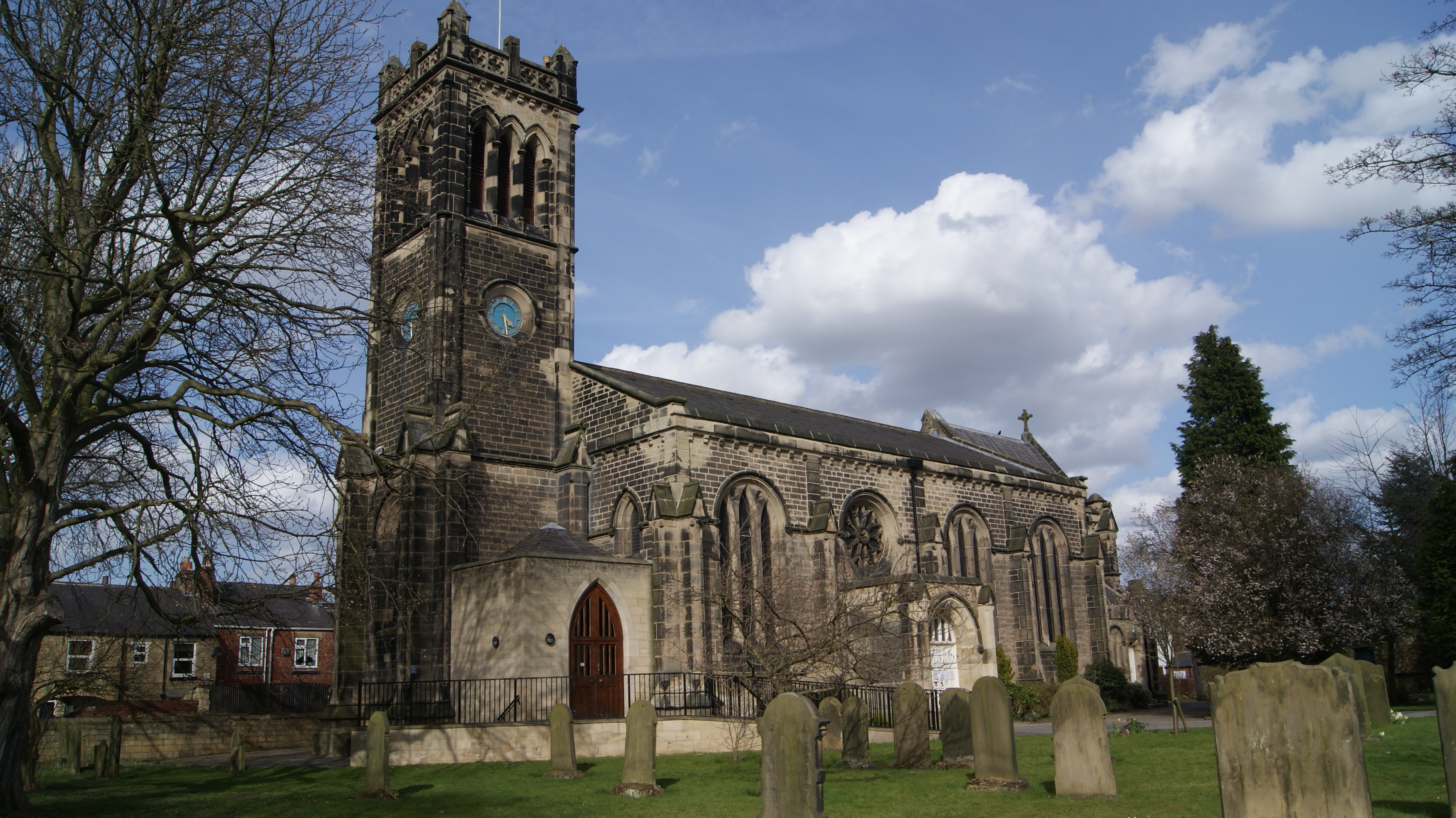 St. James' Church, Wetherby, West Yorkshire. Taken on the afternoon of Monday the 15th of April 2013.